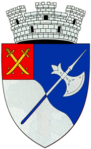 CoA of Otaci